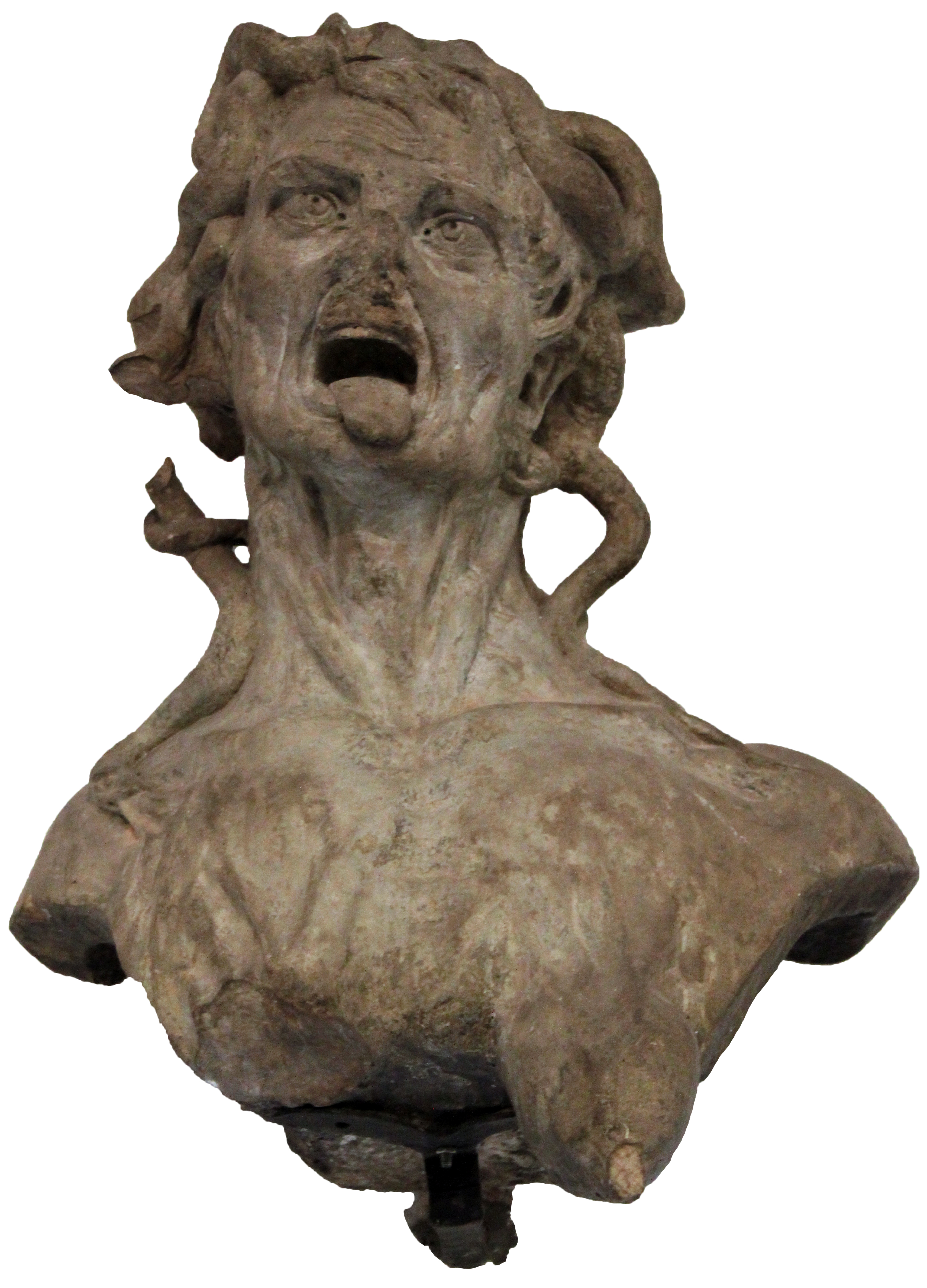 "Envy head", beginning of the 18th century, Berlin Heiliggeiststr. 38, now Märkisches Museum Berlin